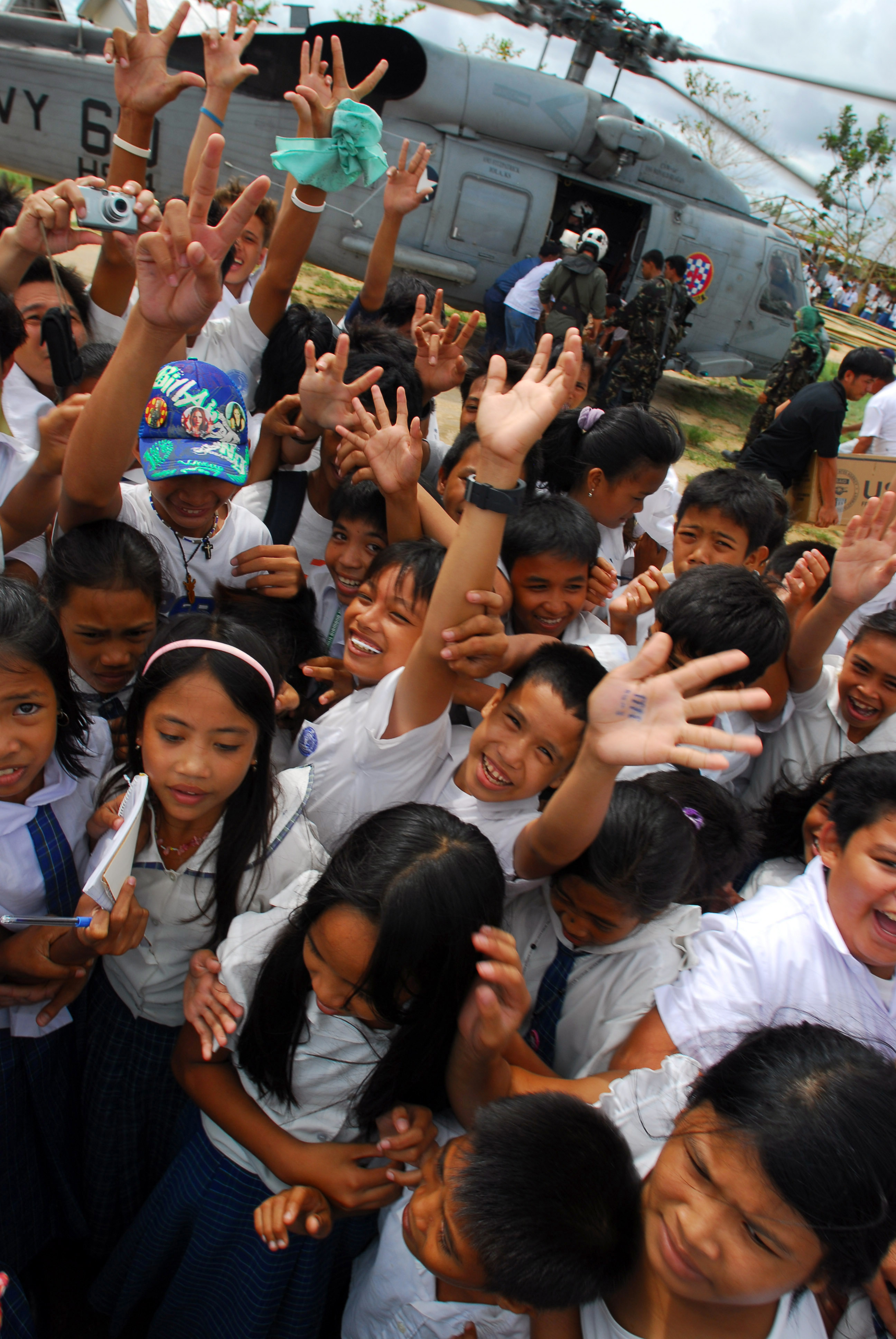 BALASAN, Philippines (July 1, 2008) Residents from the Municipality of Balasan, Philippines wave and cheer after Sailors assigned to the "Black Knights" of Helicopter Anti-Submarine Squadron (HS) 4 deliver supplies. The crew has been flying missions to the island delivering food and water to remote cities like Balasan. The Ronald Reagan Carrier Strike Group is off the coast of Panay Island providing humanitarian assistance and disaster response in the wake of Typhoon Fengshen. The region was hard-hit by Typhoon Fengshen and the "Black Knights" have been flying seven straight days delivering supplies to remote locations on the island. U.S. Navy photo by Mass Communication Specialist 2nd Class Jennifer S. Kimball (Released)